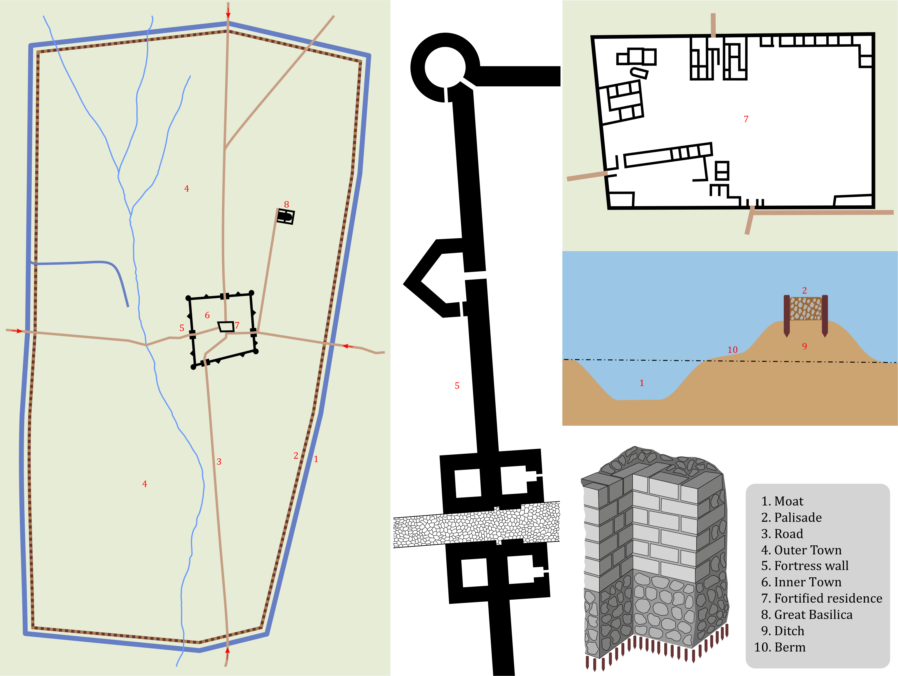 Plan of Pliska, the capital of the First Bulgarian Empire. Based on: [1], [2]